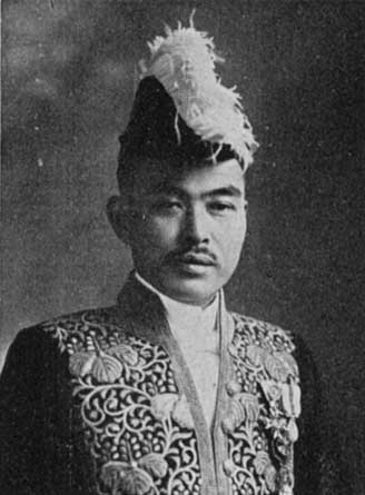 Manjirō Hayama, 2nd director of the Yamagata Higher School.